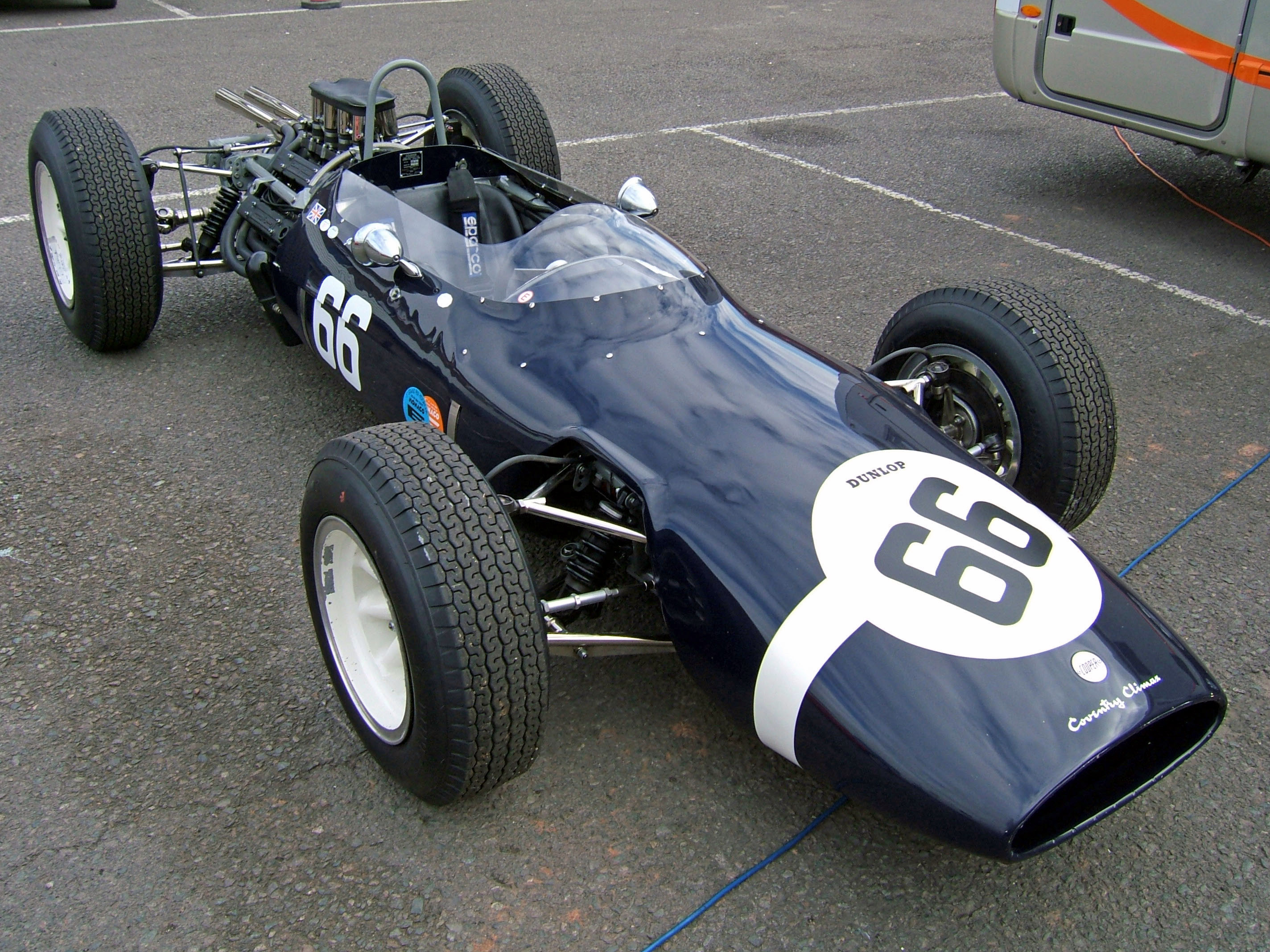 A Cooper T66 Formula One car, with its engine cover removed, waits in the paddock of the VSCC SeeRed race meeting, Donington Park, September 2007.